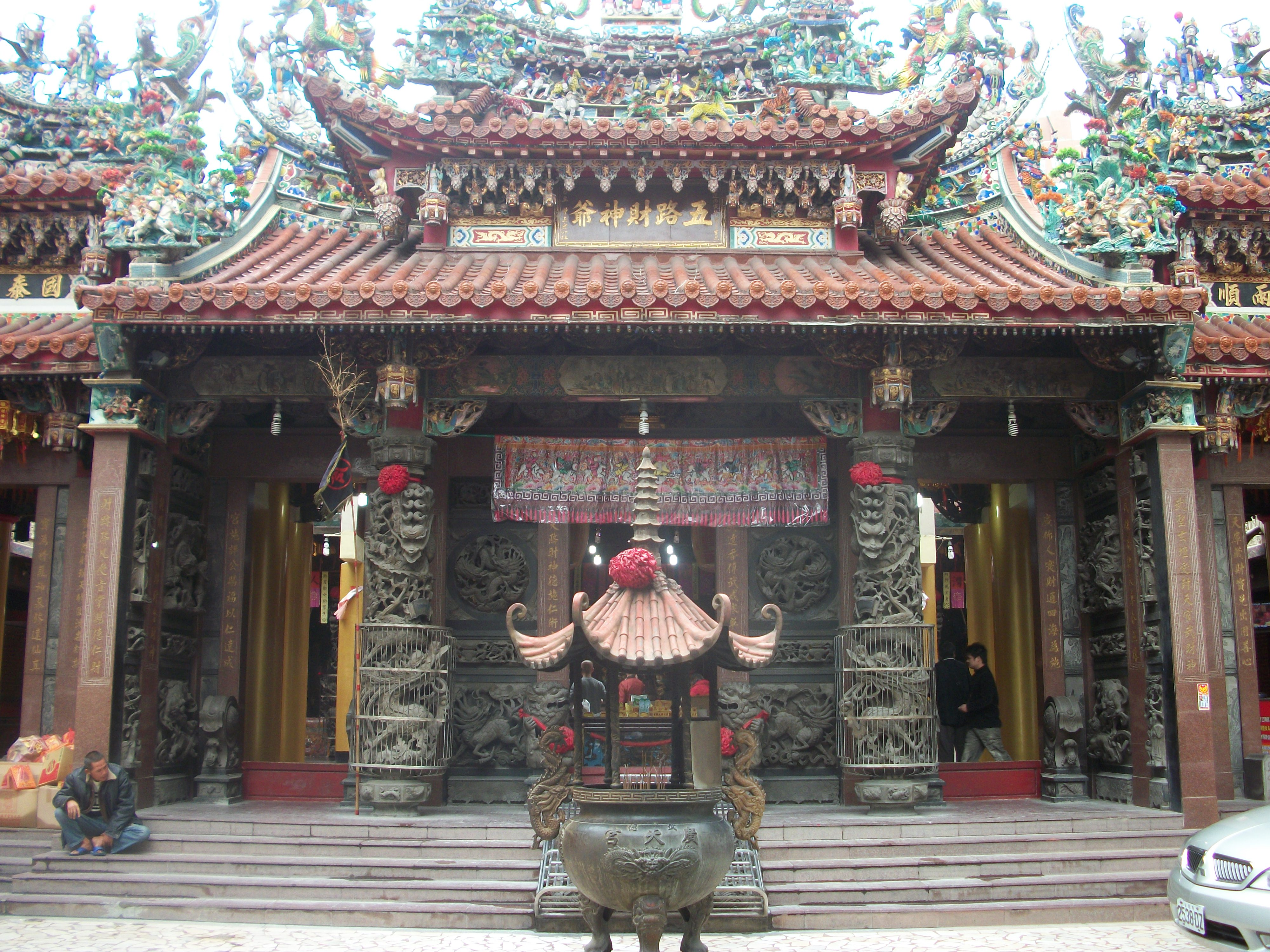 Wu-De Guang-Tei Temple is the temple of Cai-Shen in the central part of Taiwan,it located at Dakengkou in Taichung City.中文（台灣）: 武德廣天宮是臺灣中部的財神廟宇，位於臺中市大坑口。